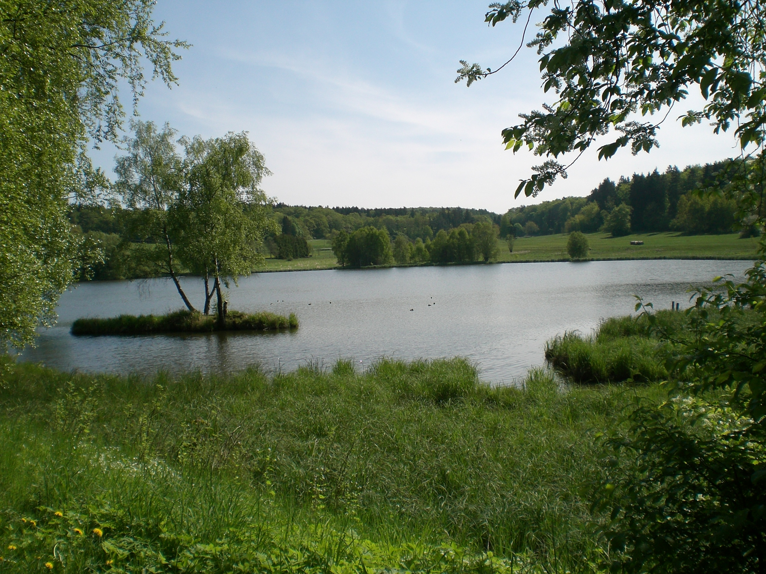 The Unterer Teich in Stiege. Lake in the Harz Mountains, Saxony-Anhalt, Germany